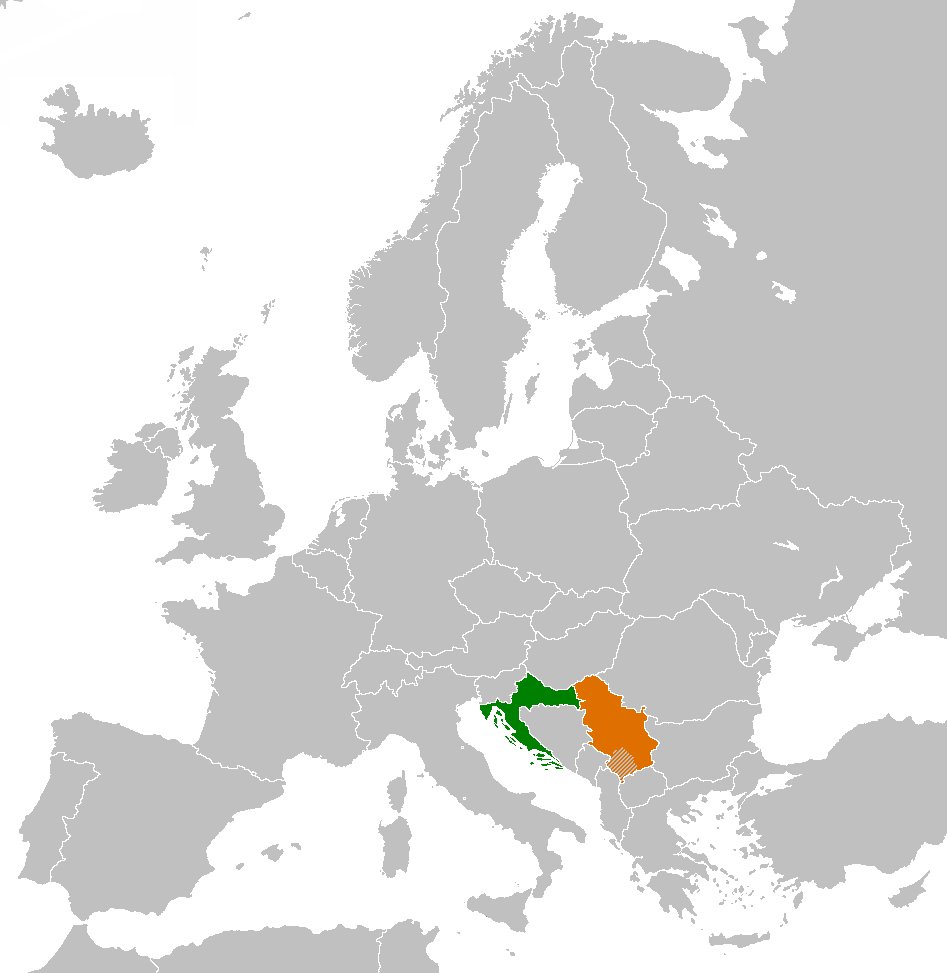 Location of Serbia (orange, on the east) and Croatia (green, on the west) on the european continent.